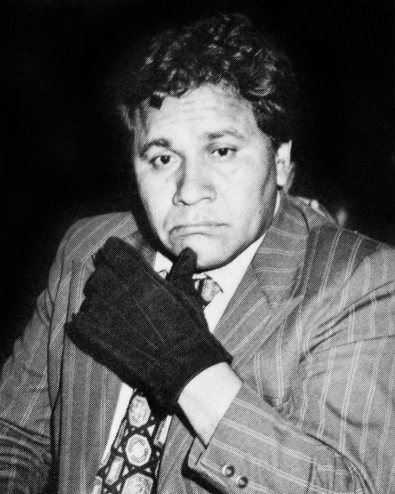 Oscar Zeta Acosta in the Baccarat Lounge of Caesars Palace in Las Vegas, Nevada.